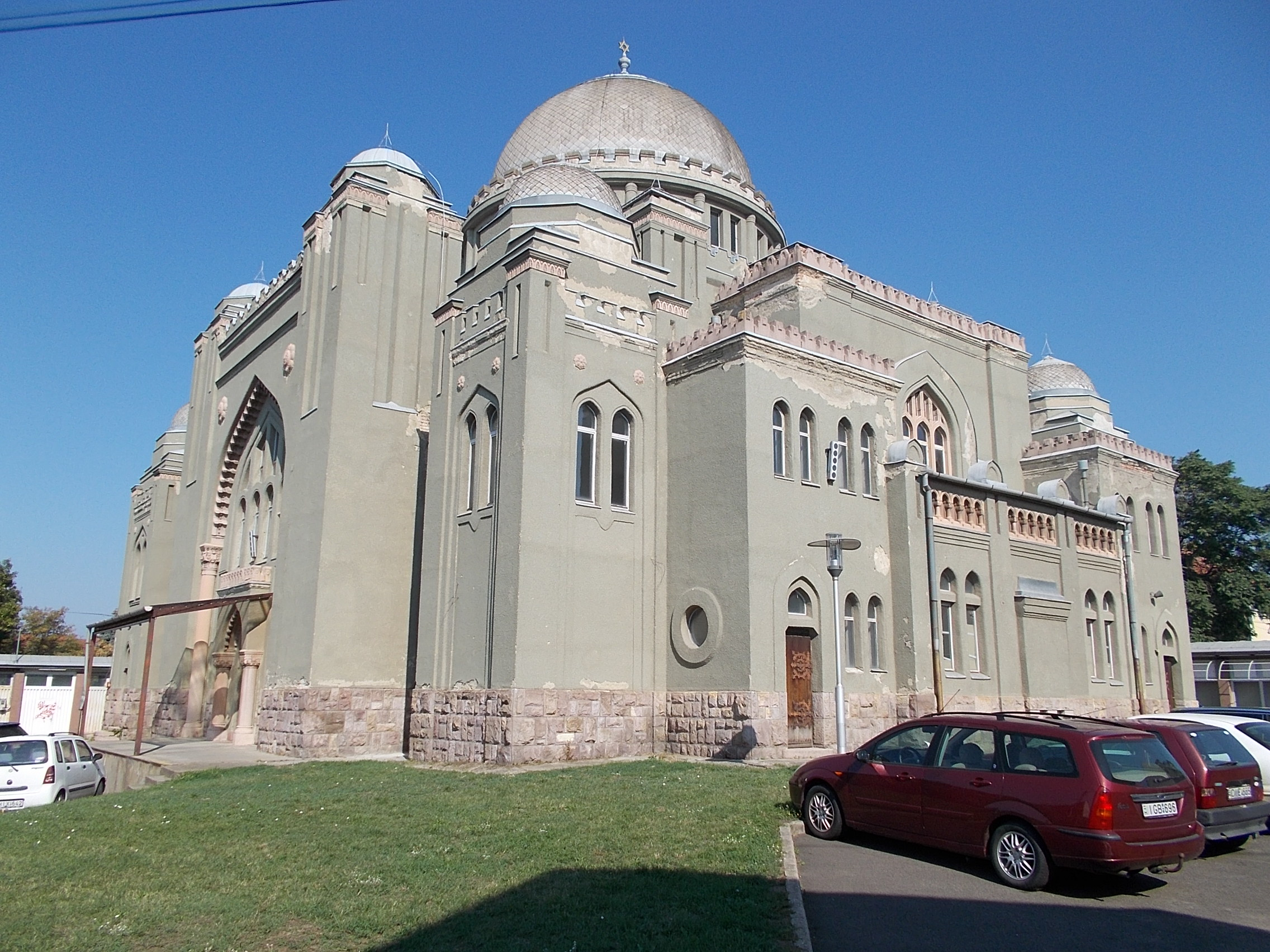 Synagogue. Listed ID -1799. - Vármegye Rd., Gyöngyös, Heves County, Hungary